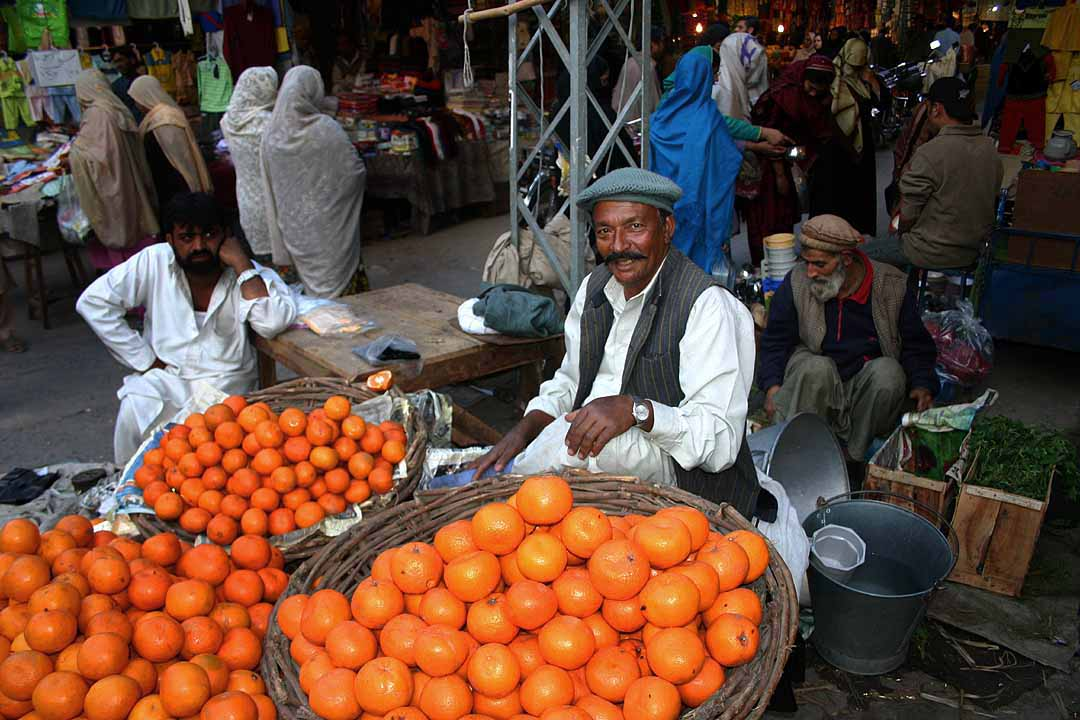 A fruit vendor in a fruit market in the heart of Multan. Oranges in Peshawar, Pakistan. Market View from Tehsil Bazar of Dunga Bunga. A food market in the heart of Multan.